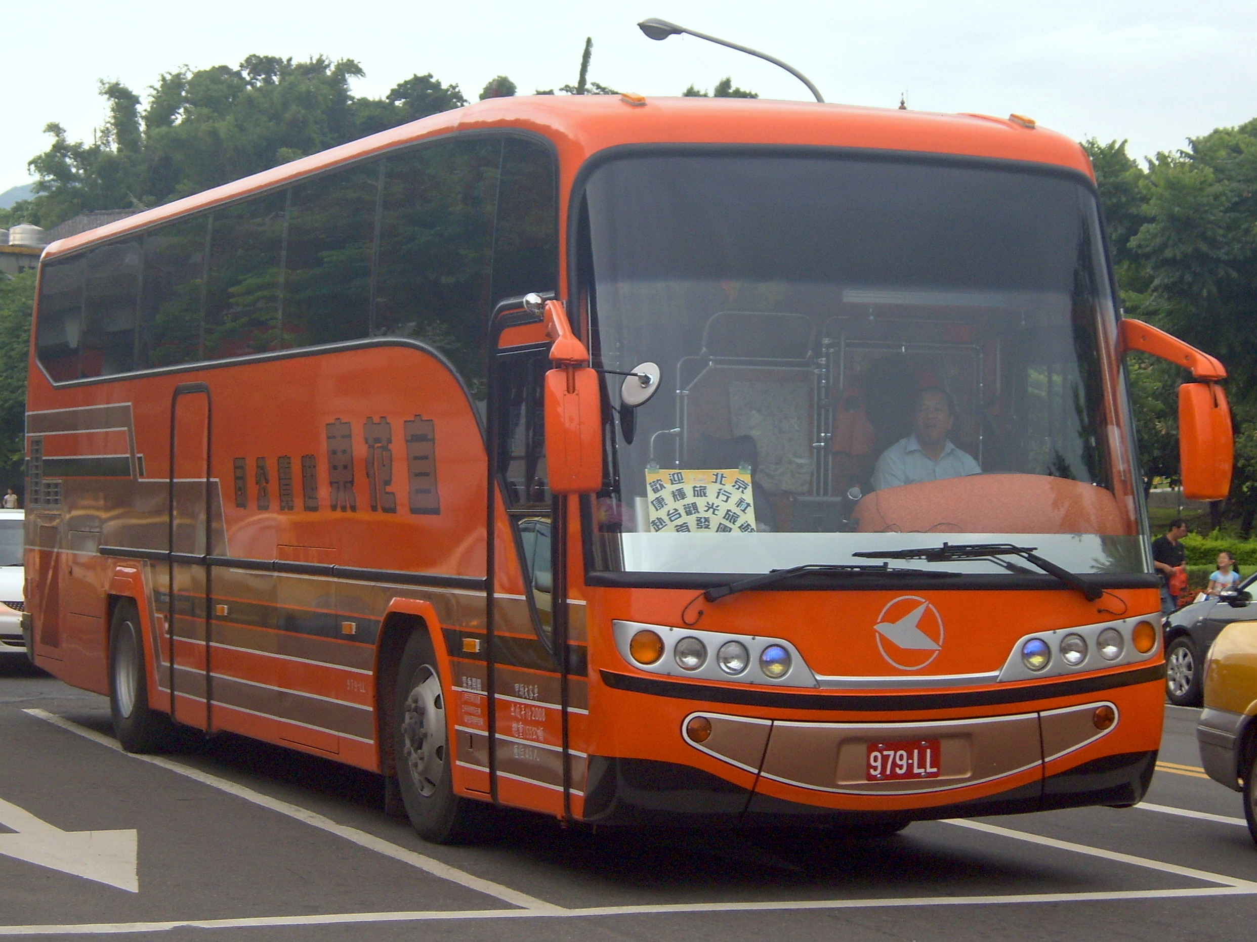 YiHuaDong Tour - Fuso RM11FNL.